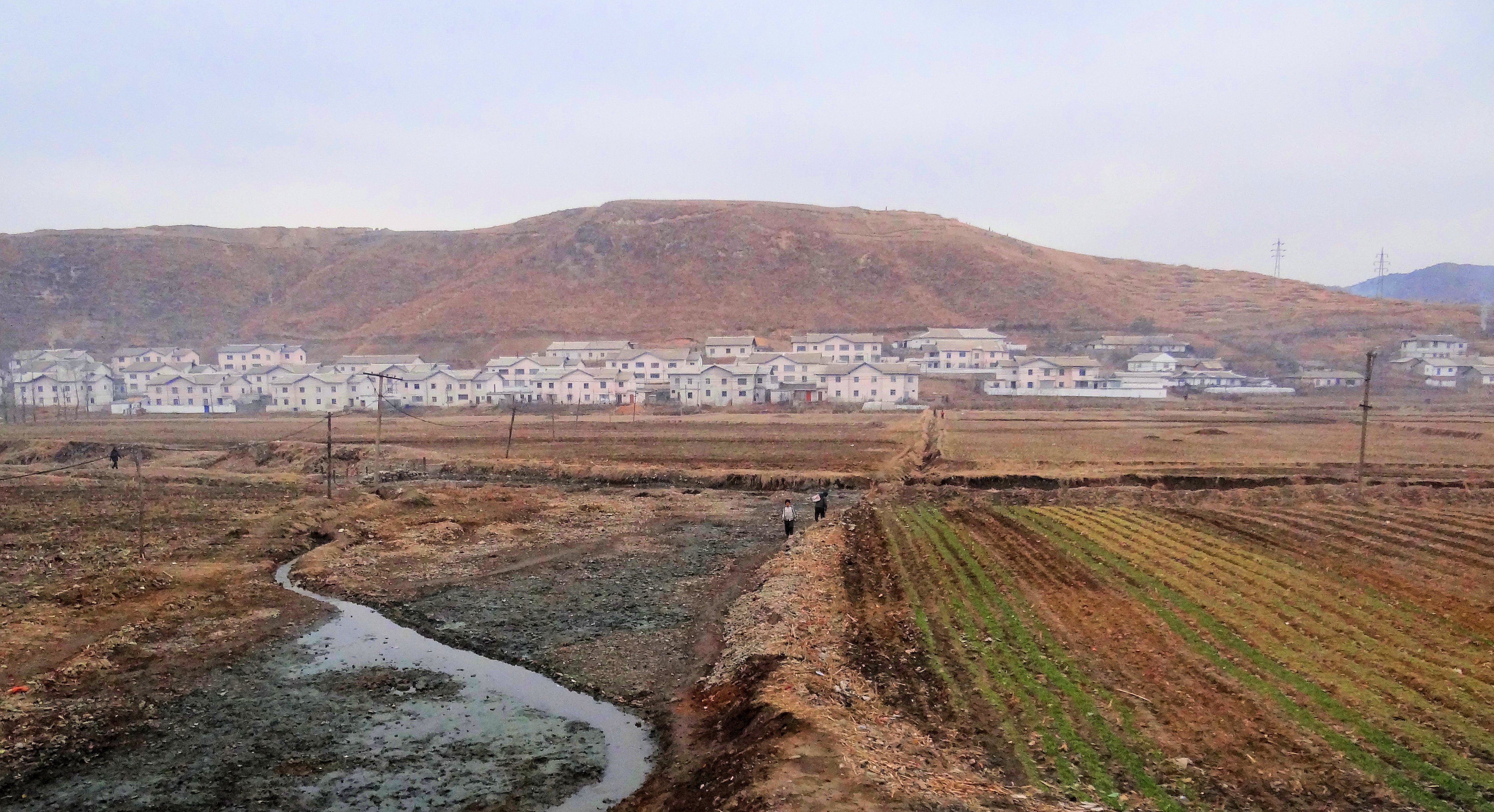 A typical settlement along the main roads in the South Pyongan province, connected to the world chiefly by small well-trodden paths through the fields.